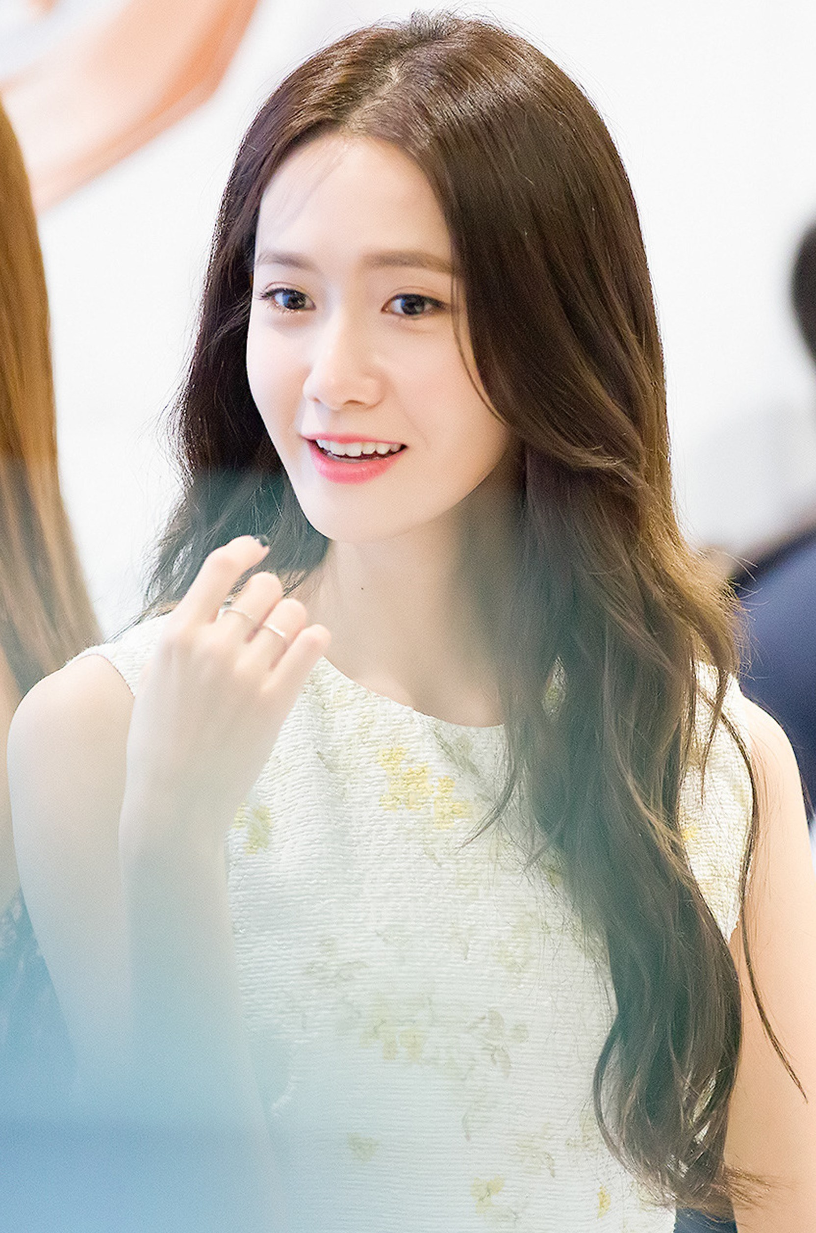 Im Yoon-ah at a fanmeet of Lotte Department Store Casio, on June 23, 2016.